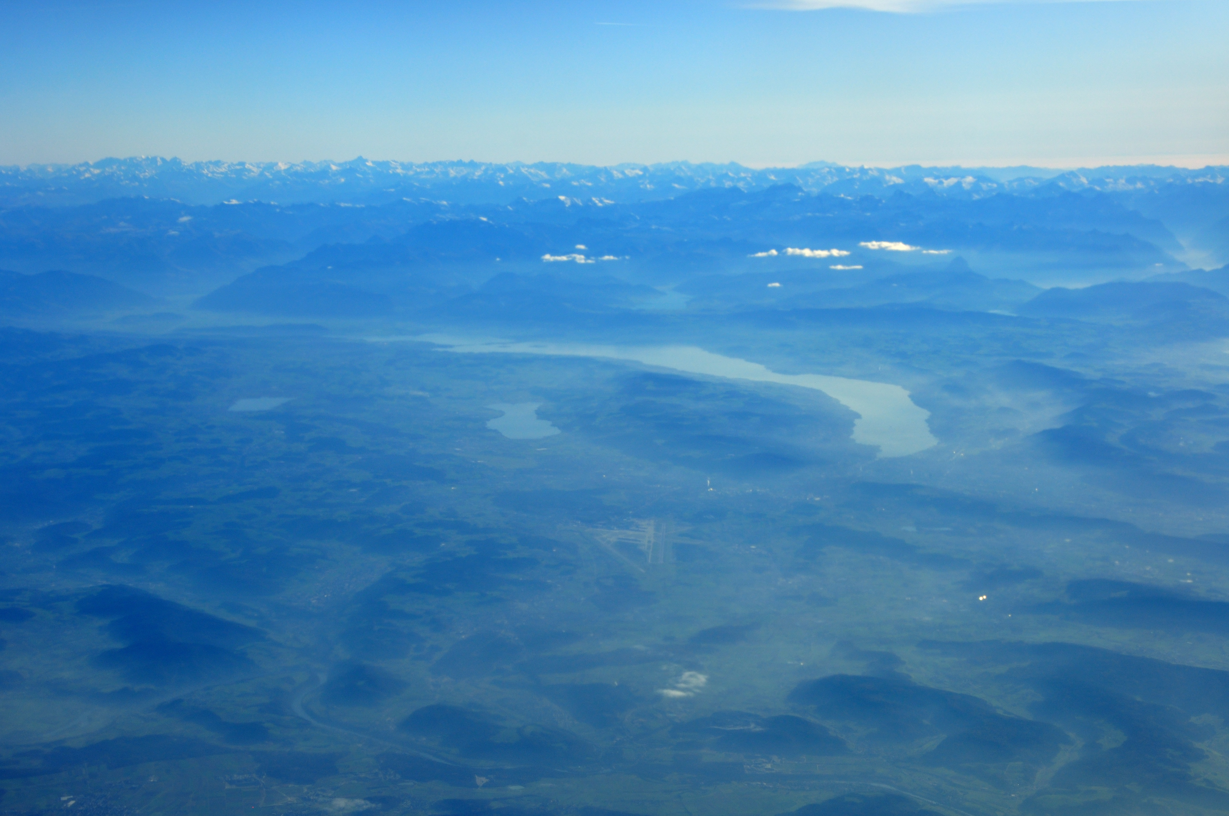 Germany, Baden-Württemberg, a clear November day on a flight from Prague to Geneva.